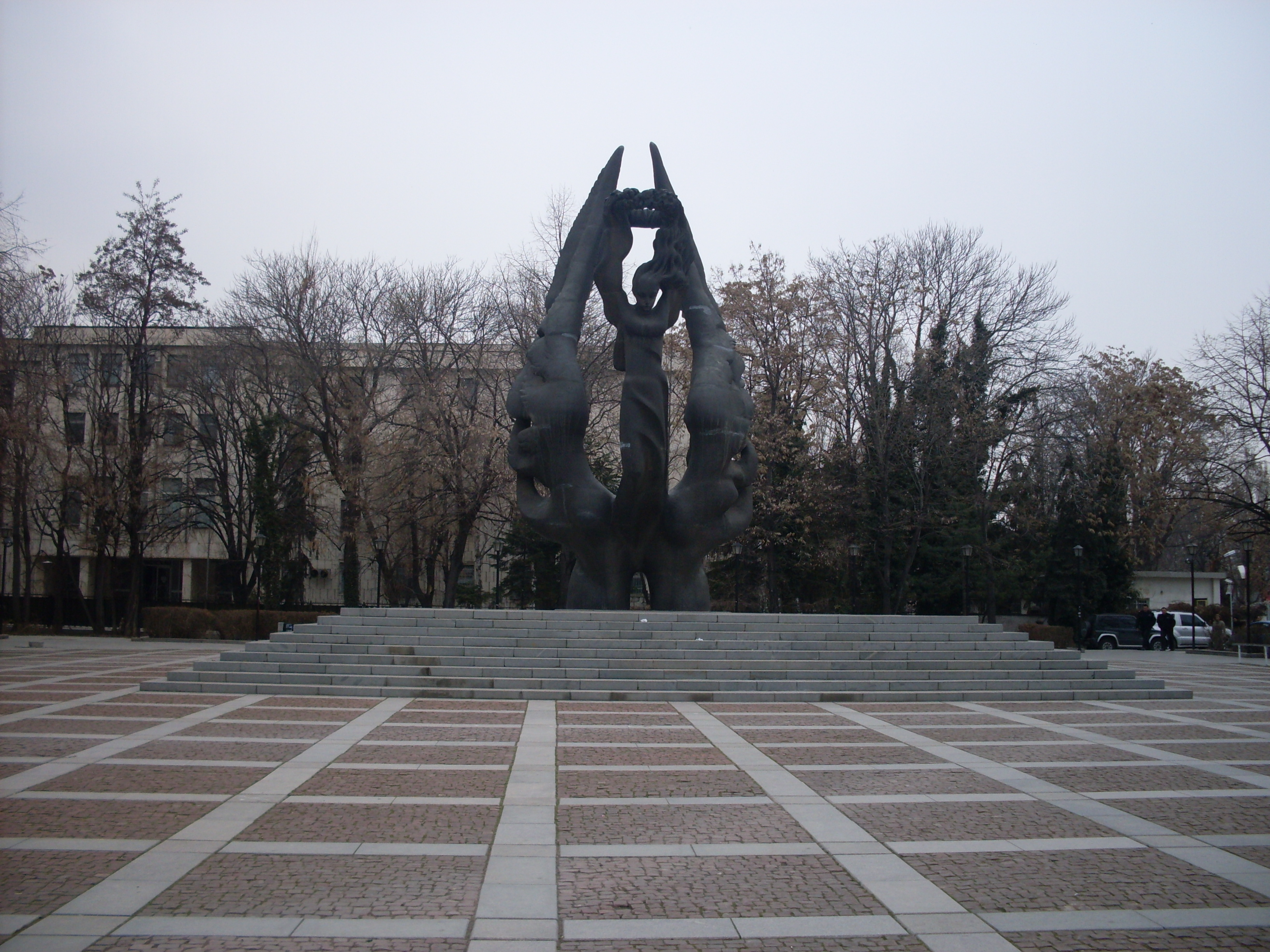 Monument of the Compound, square "Compound", Plovdiv- Bulgaria